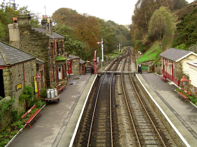 Great Britain, North Yorkshire, Goathland: Goathland Station, a station on the North Yorkshire Moors Railway.